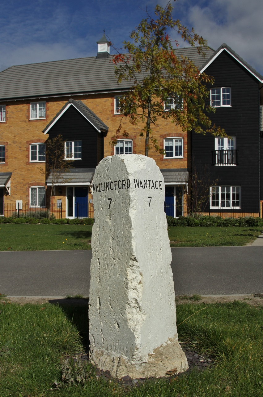 Milestone in Didcot Road, Harwell, Oxfordshire (formerly Berkshire), at the junction with Greenwood Way